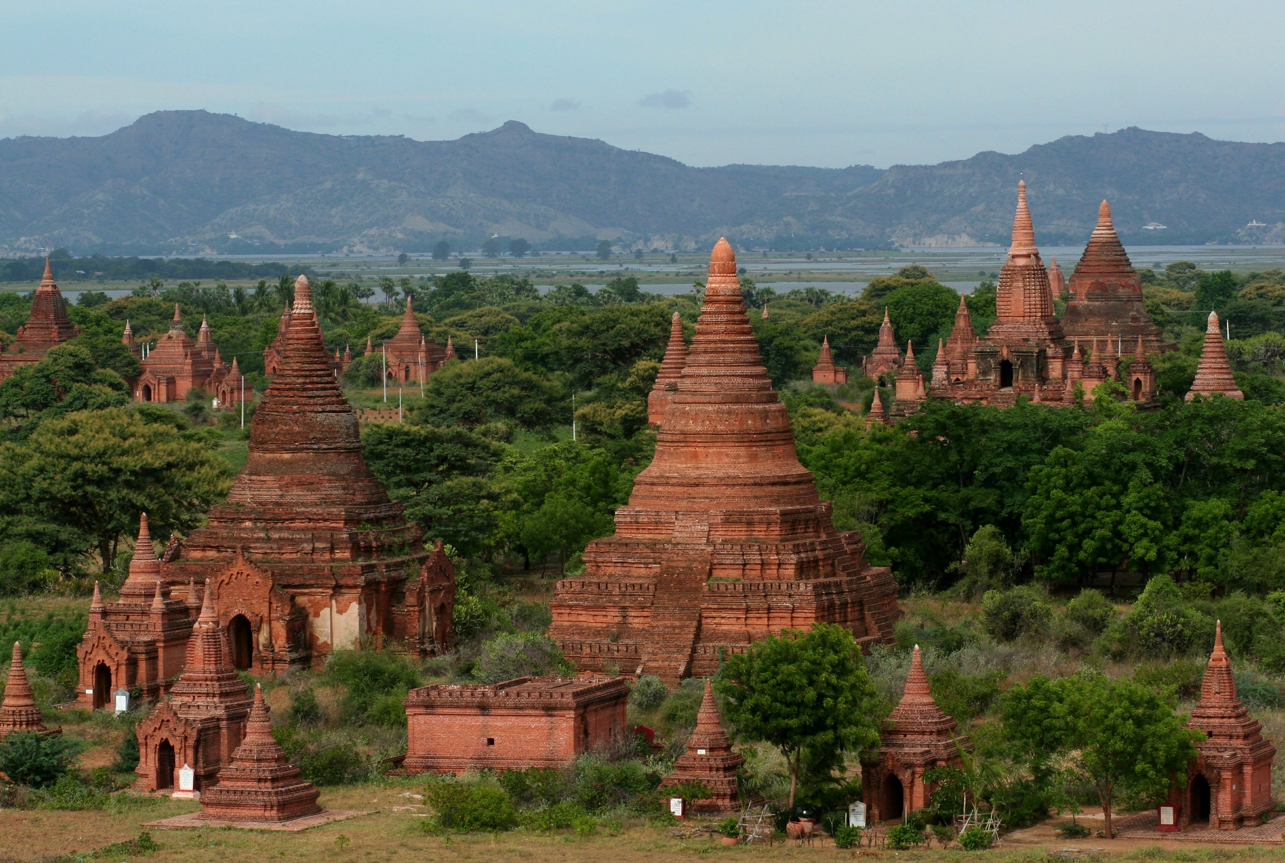 Bagan